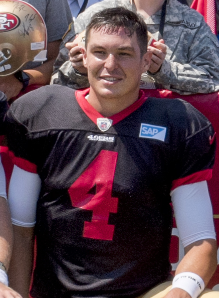 The 49ers organization invited military service members from the local area to observe their training camp during a military appreciation day at their training facility in Santa Clara Calif., Aug. 12, 2018.